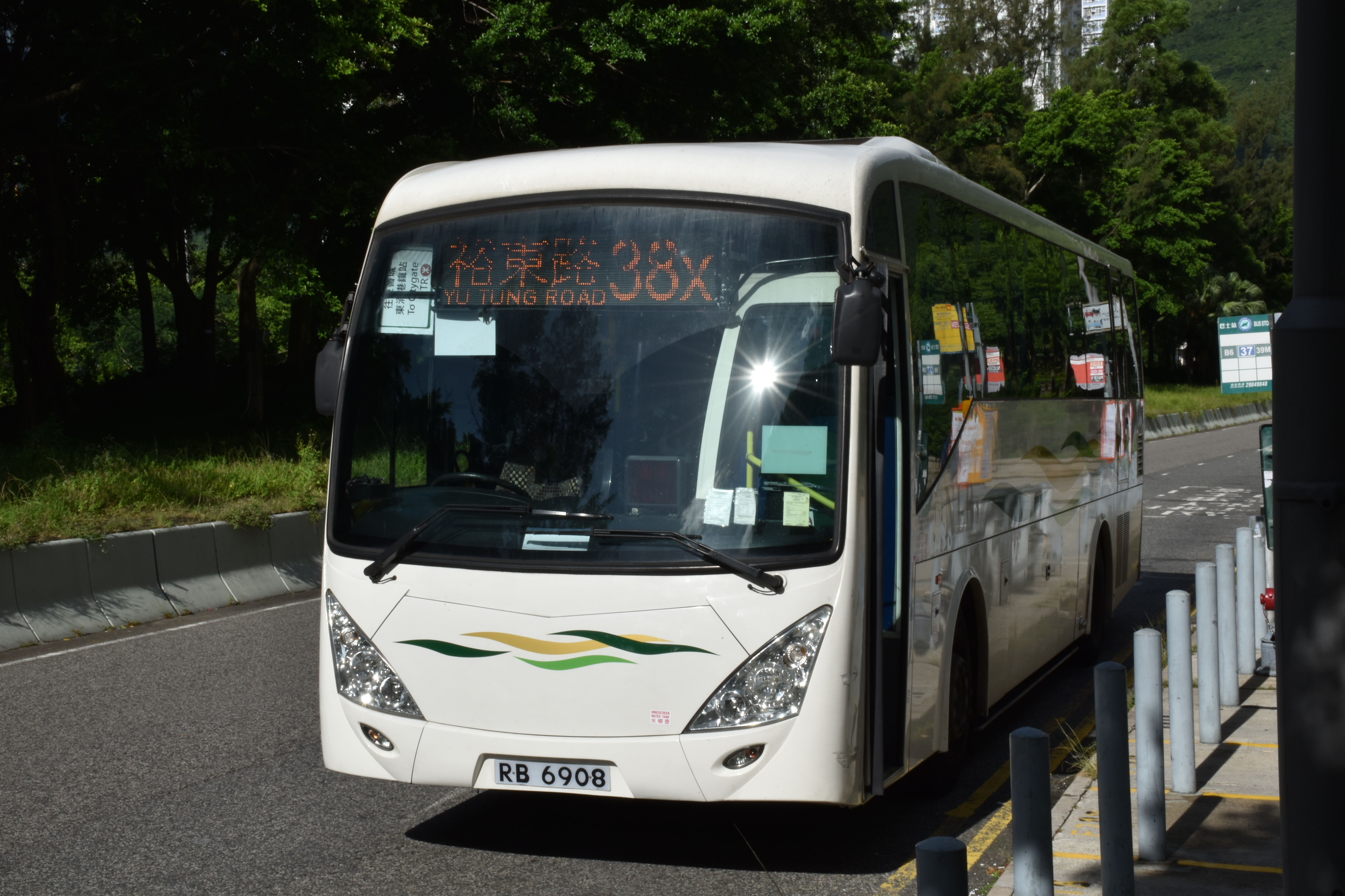 NLB Route 38X (Yu Tung Road)